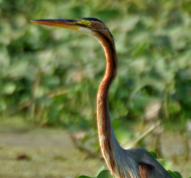 Purple Heron Ardea purpurea in Kolleru, Andhra Pradesh, India.